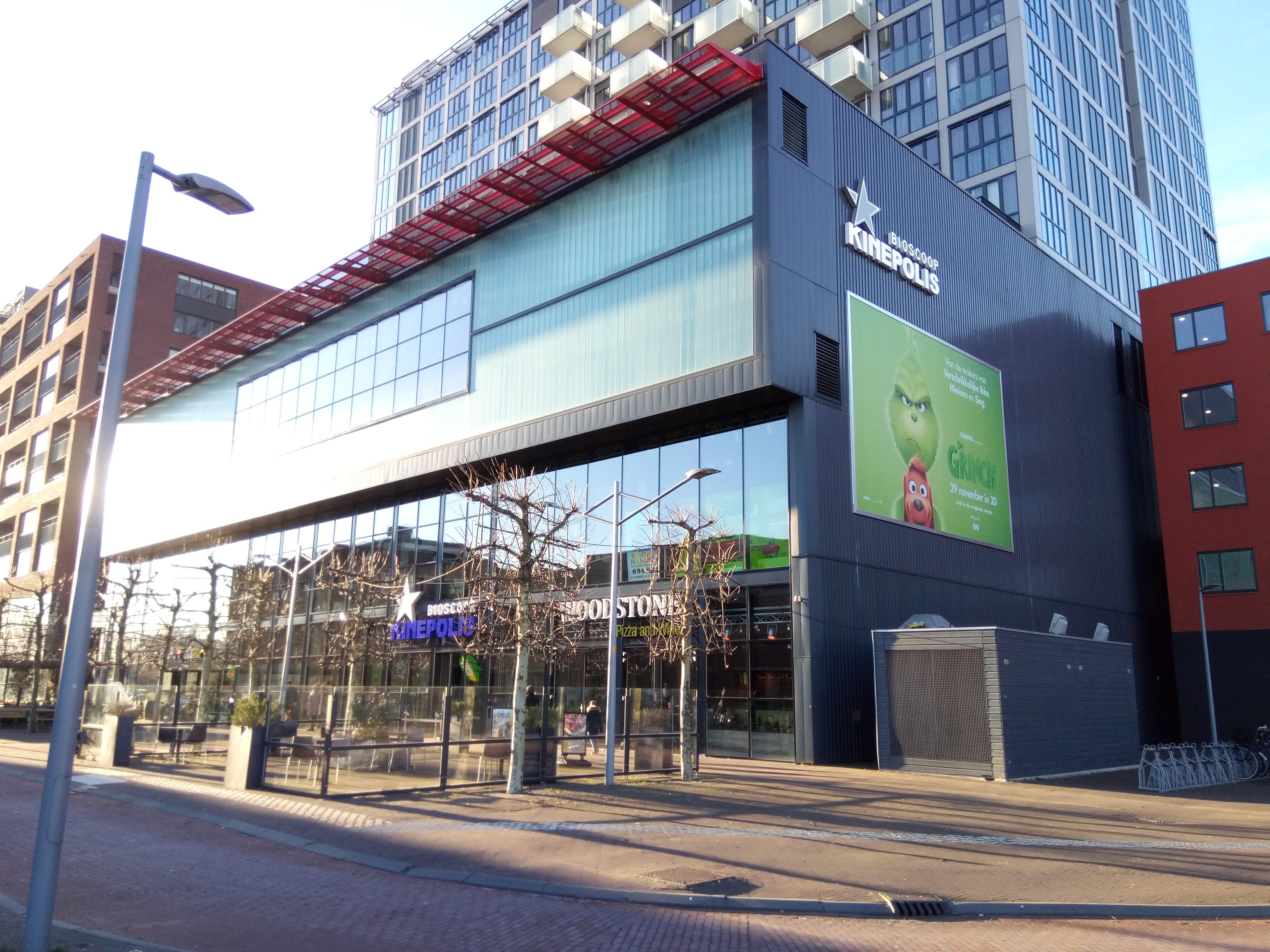 A cinema of Kinepolis